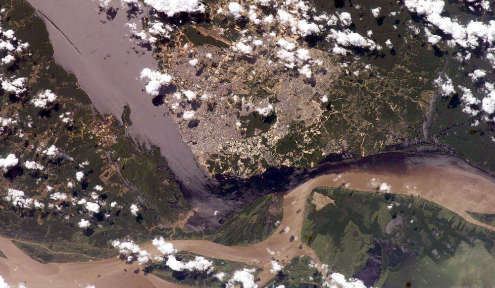 Satellite picture of the Amazon River, near the city of Manaus, capital of the state of Amazonas, northen Brazil.